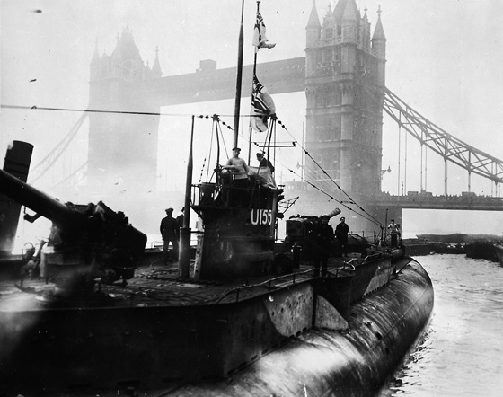 ‘U155’ at Tower Bridge, 1919 Reproduction ID: P39570 Maker: Unknown Date: 1919